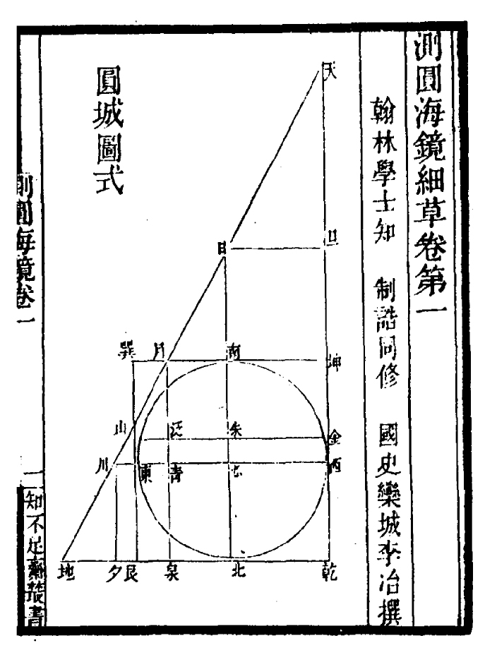 Sea mirror of circle measurements 测圆海镜 圆城图式